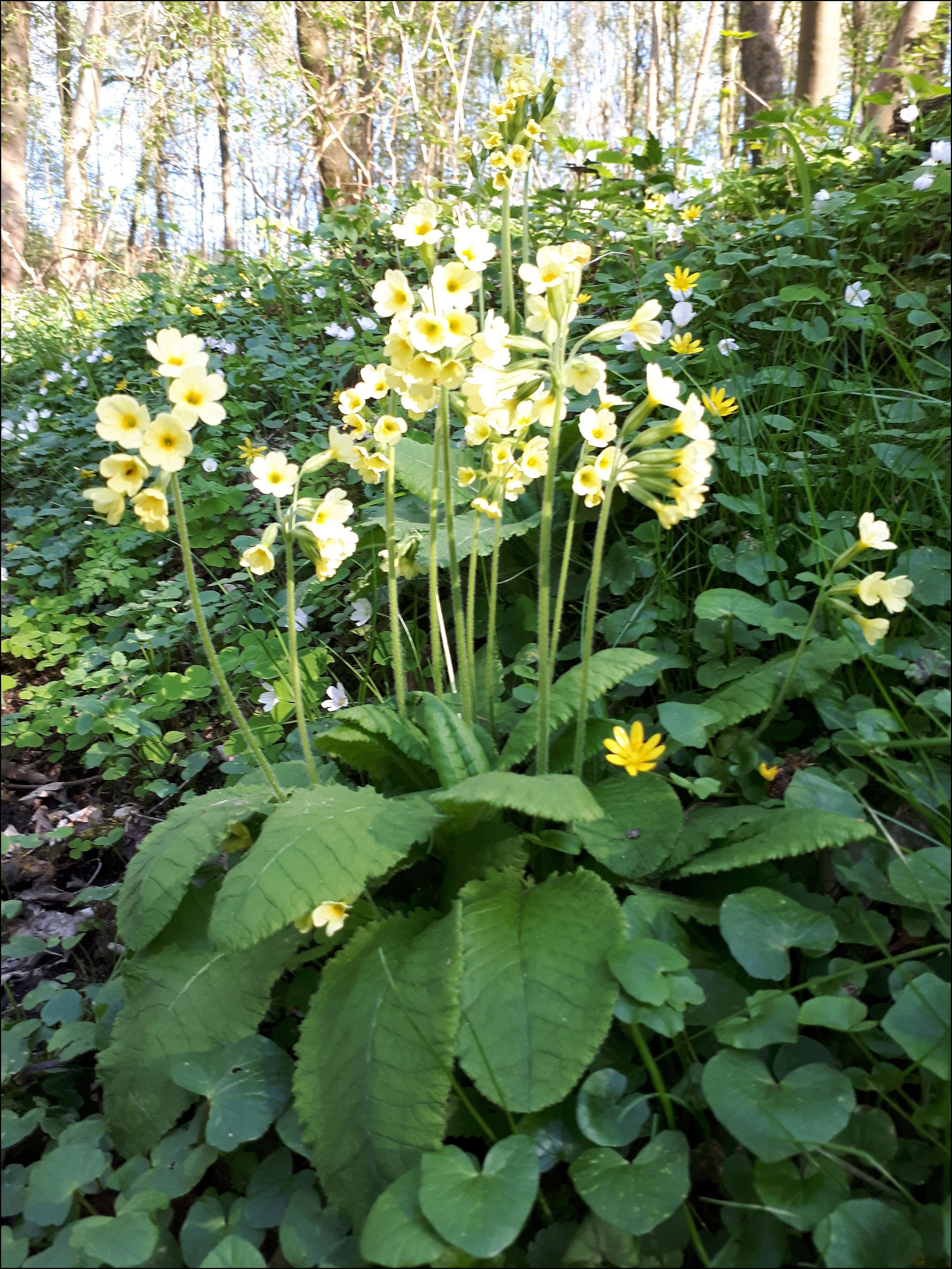 Primula veris